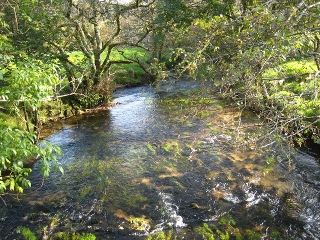 The River Fowey at Trekeivesteps Downstream from the road bridge.